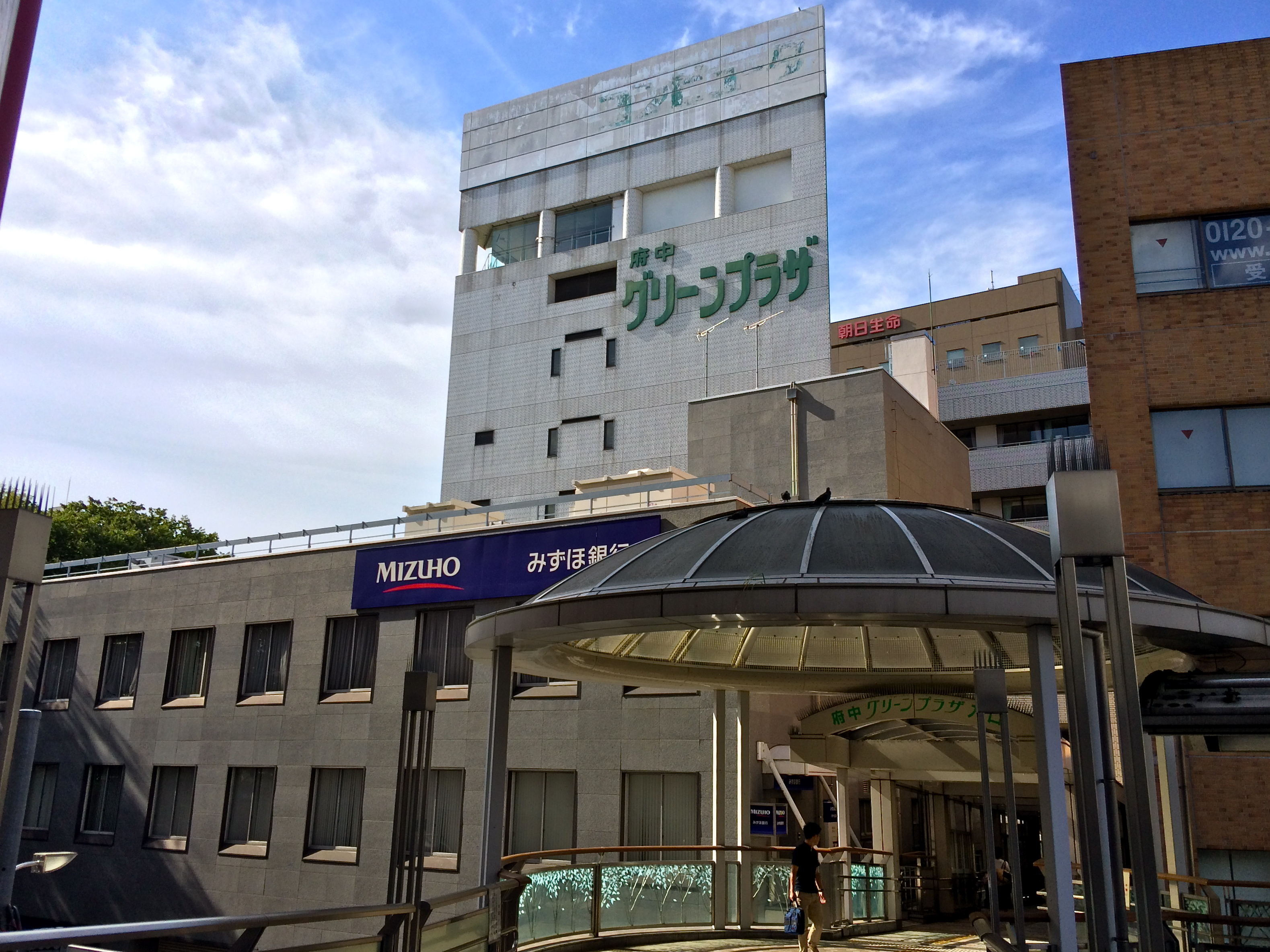 Fuchu Green Plaza was shot from north exit of Fuchu station.